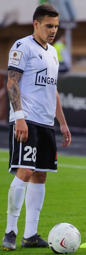 Ruslan Magal with FC Torpedo Moscow in a game against FC Yenisey Krasnoyarsk.